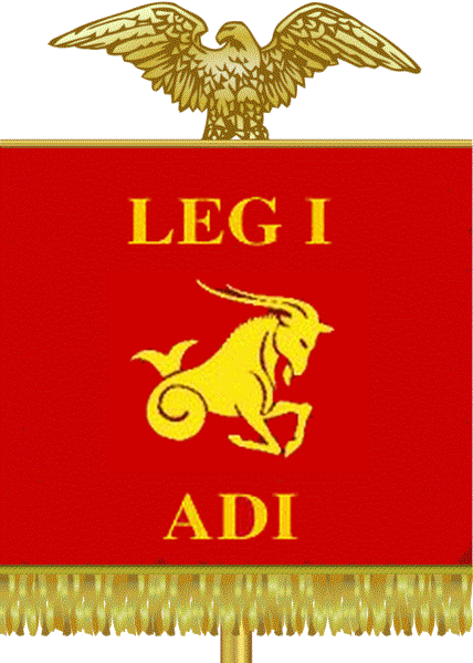 Symbole : le Capricorne